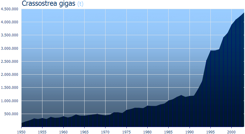 Oyster production , global